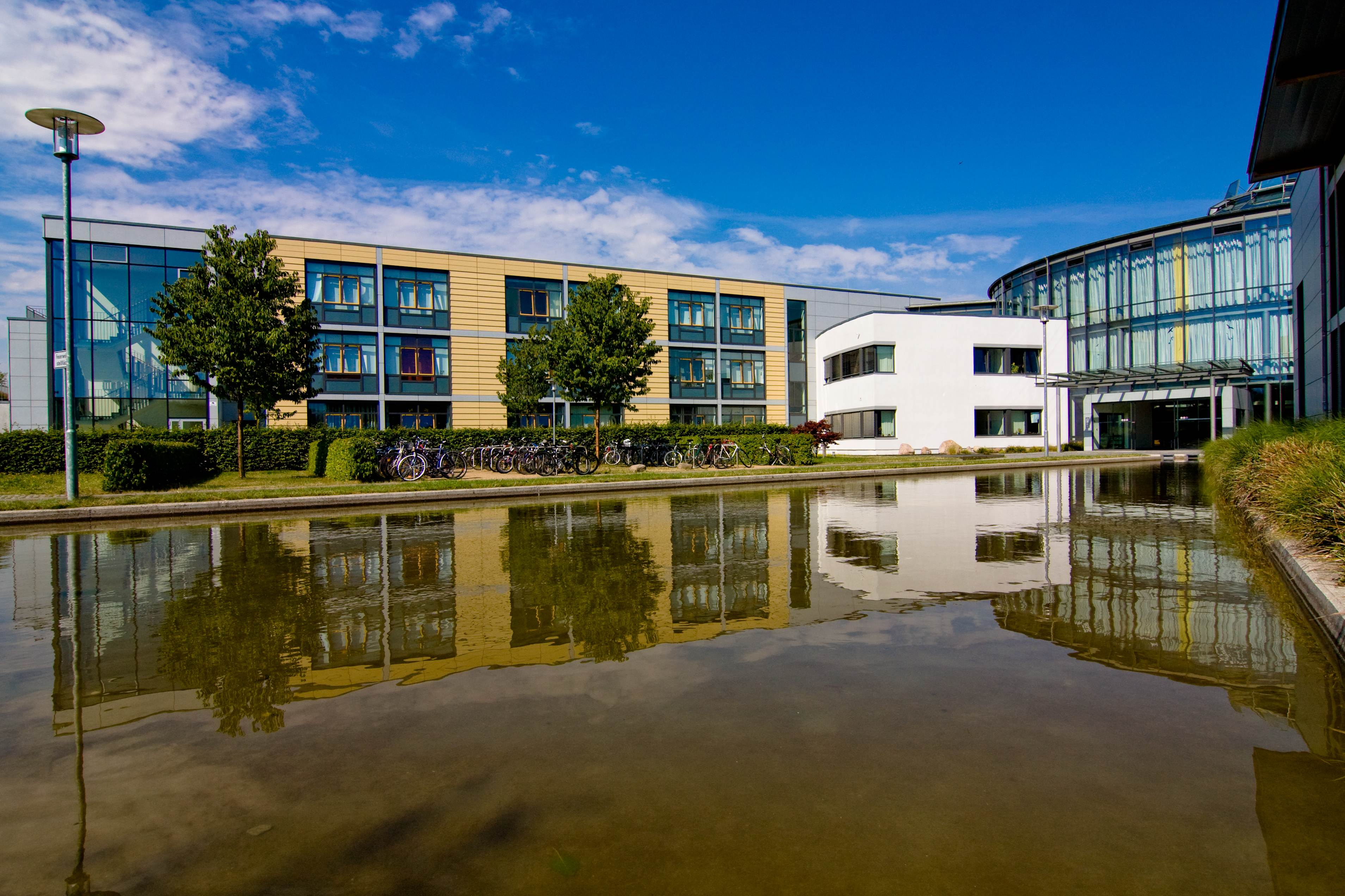 Die Psychiatrischen Kliniken des Park-Krankenhauses Leipzig.